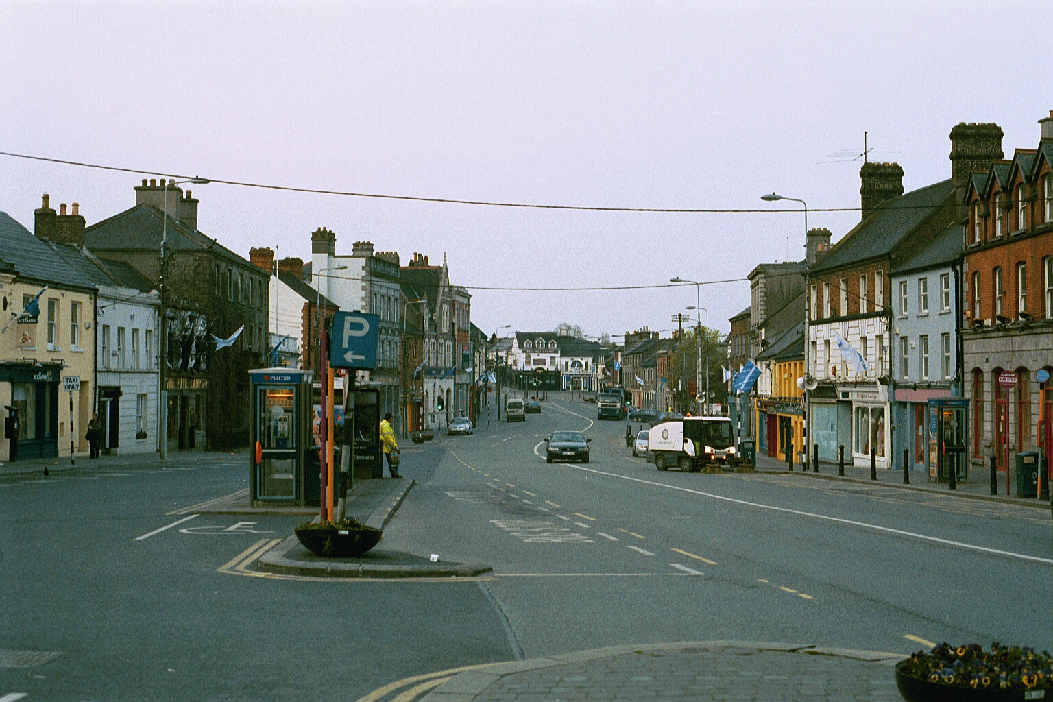 Naas Ireland Main Street